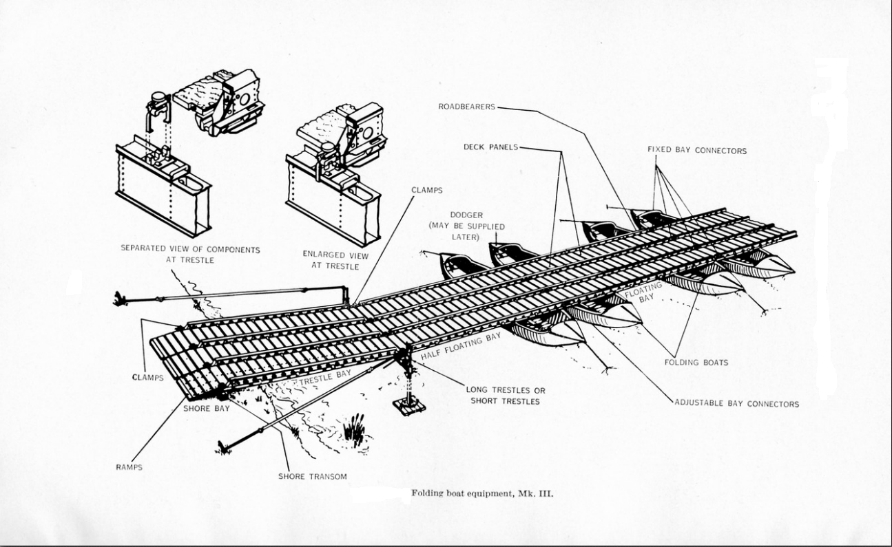 Layout and parts of Folding Boat Equipment, a light pontoon bridge of British origin widely used by the Allied Armies in World War II.